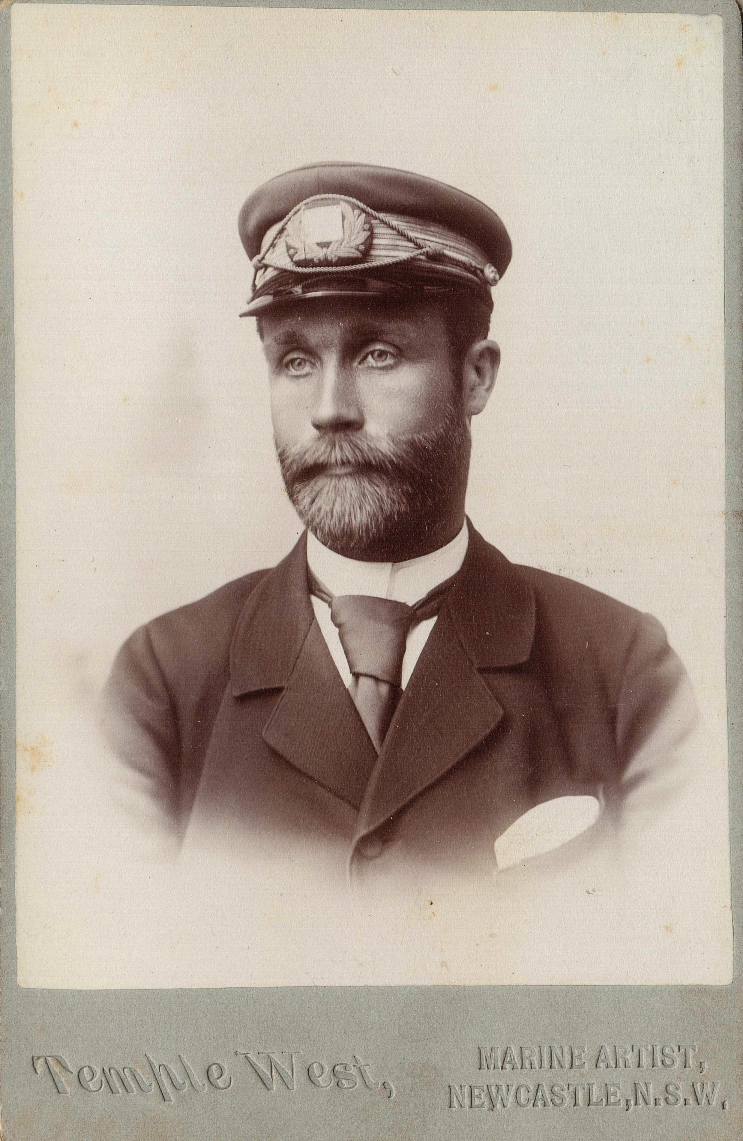 Sjökapen A. Gideon Svahnström hos fotografen i Newcastle, New South Wales, Australien på 1890-talet.